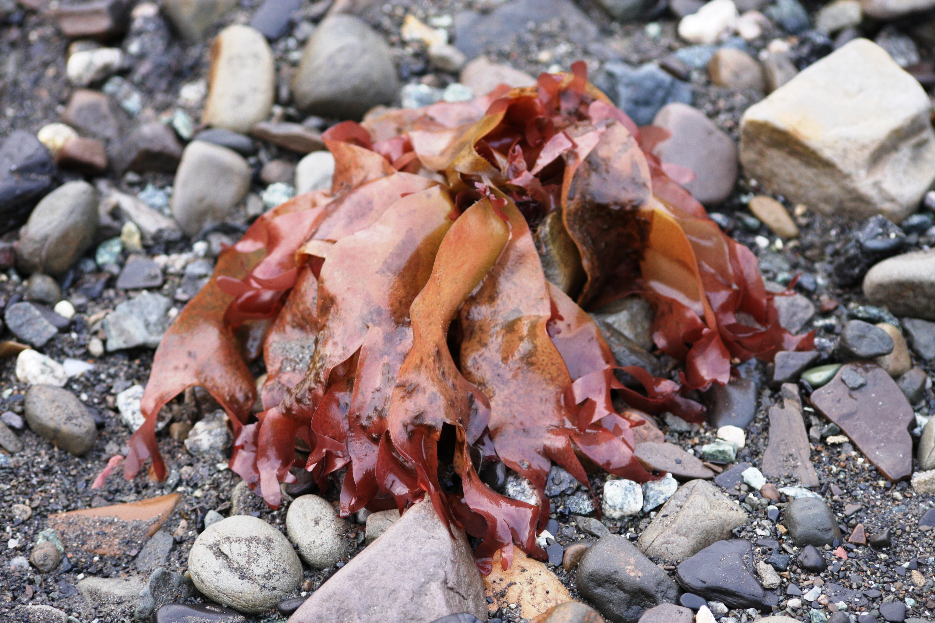 Image of an Arctic seaweed from the coastal area of Longyearbyen village - Spitsbergen